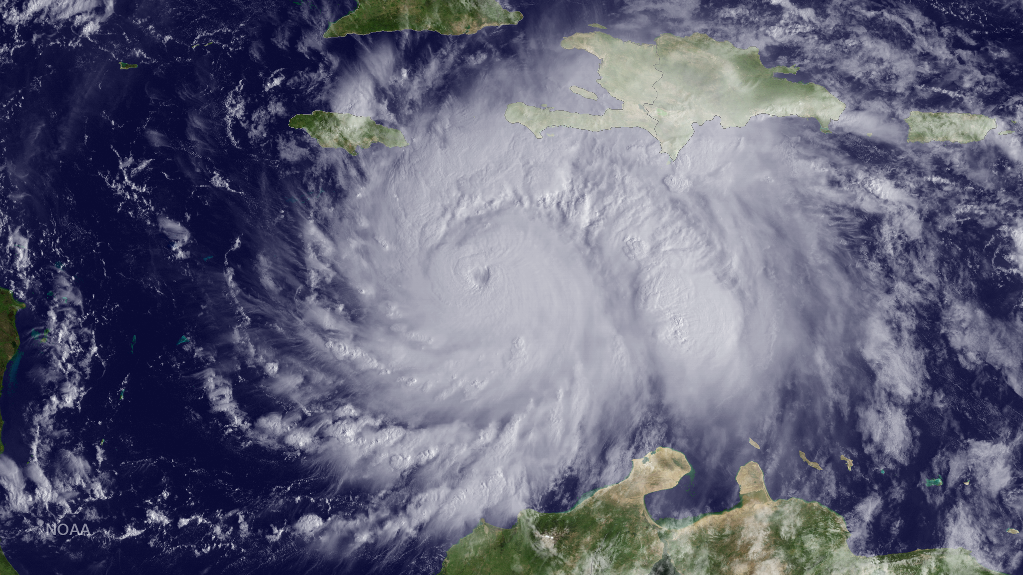 The GOES East satellite captured this image of Hurricane Matthew, currently located about 220 miles southeast of Kingston, Jamaica, at 1315 UTC on October 3, 2016.